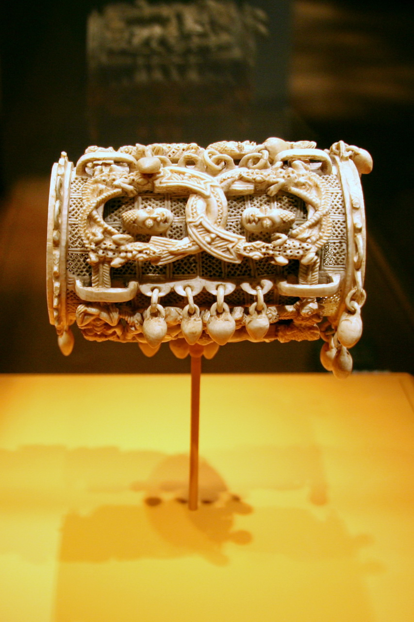 The artist's technical virtuosity is evident in this extraordinary armlet carved from one piece of ivory. The motifs on the outer interlocking piece include kneeling hunchbacks holding tethered monkeys. Hunchbacks are regarded as touched by the god Obatala who shapes the human form in the womb. White is the symbolic color of Obatala and may tie in with the use of ivory for this bracelet. The theme of ritual offerings is suggested by the disembodied heads within the interlocking circles of crocodiles biting the heads and tails of mudfish and by the tethered monkeys. Português - A virtuosa técnica do artista é evidente neste bracelete extraordinário esculpido em uma peça de marfim. Os motivos na peça de intertravamento externa incluem corcundas ajoelhadas segurando macacos amarrados. Os corcundas são considerados tocados pelo deus Obatala, que molda a forma humana no útero. O branco é a cor simbólica de Obatala e pode combinar com o uso de marfim para esta pulseira. O tema das oferendas rituais é sugerido pelas cabeças desencarnadas dentro dos círculos entrelaçados de crocodilos que mordem as cabeças e caudas de peixe-lama e pelos macacos presos.